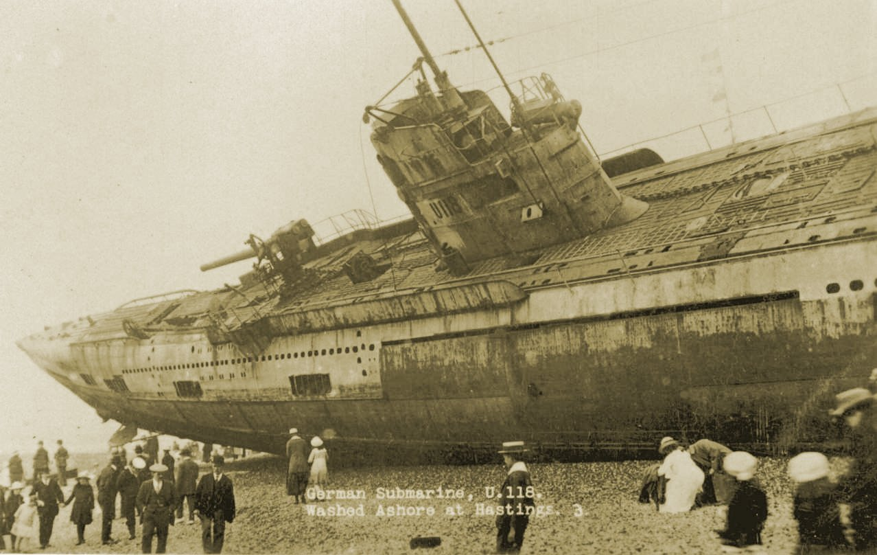 German Uboat U118. Washed ashore at Hastings SM U118, an den Strand von Hastings getrieben